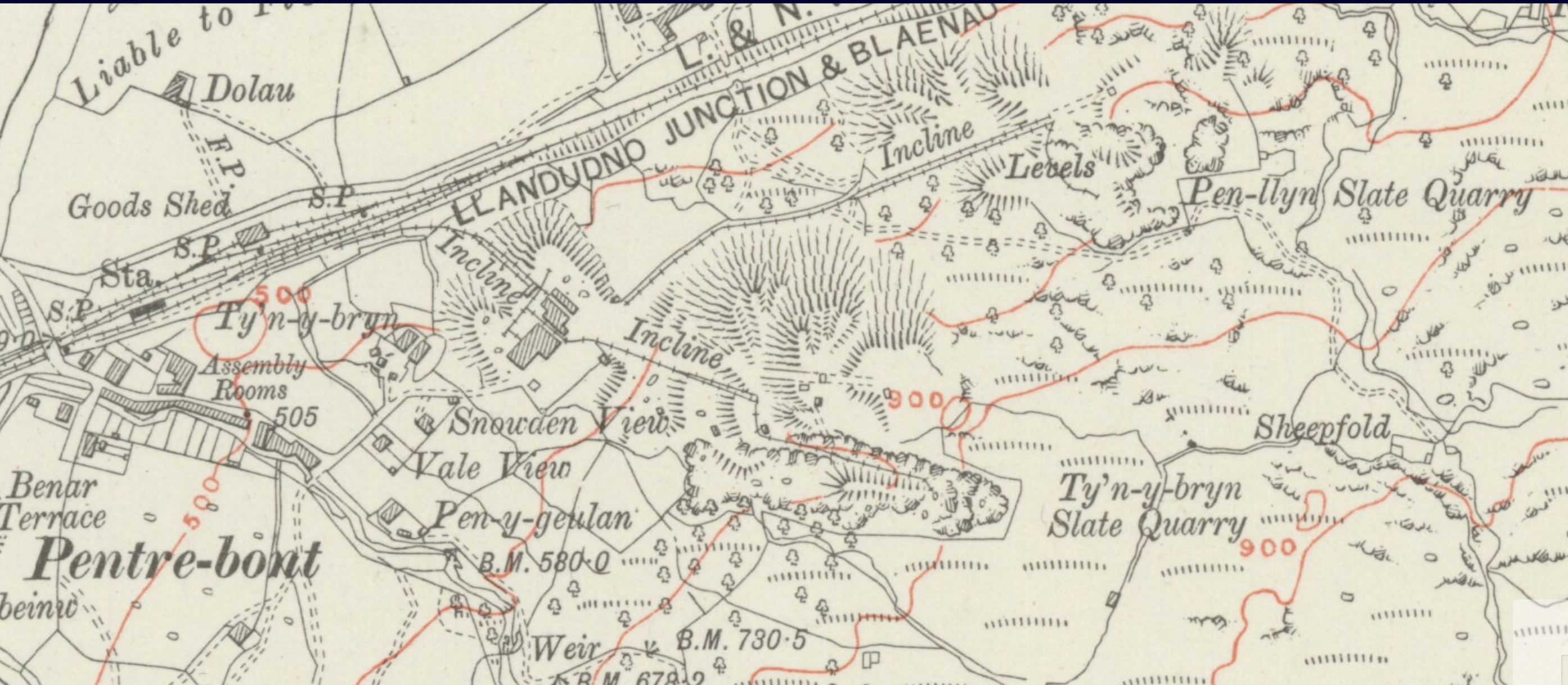 Extract of the 1911 Ordnance Survey map Caernarvonshire XXIII.SE, showing the Ty'n-y-bryn and Penllyn slate quarries and Dolwyddelan railway station in 1911